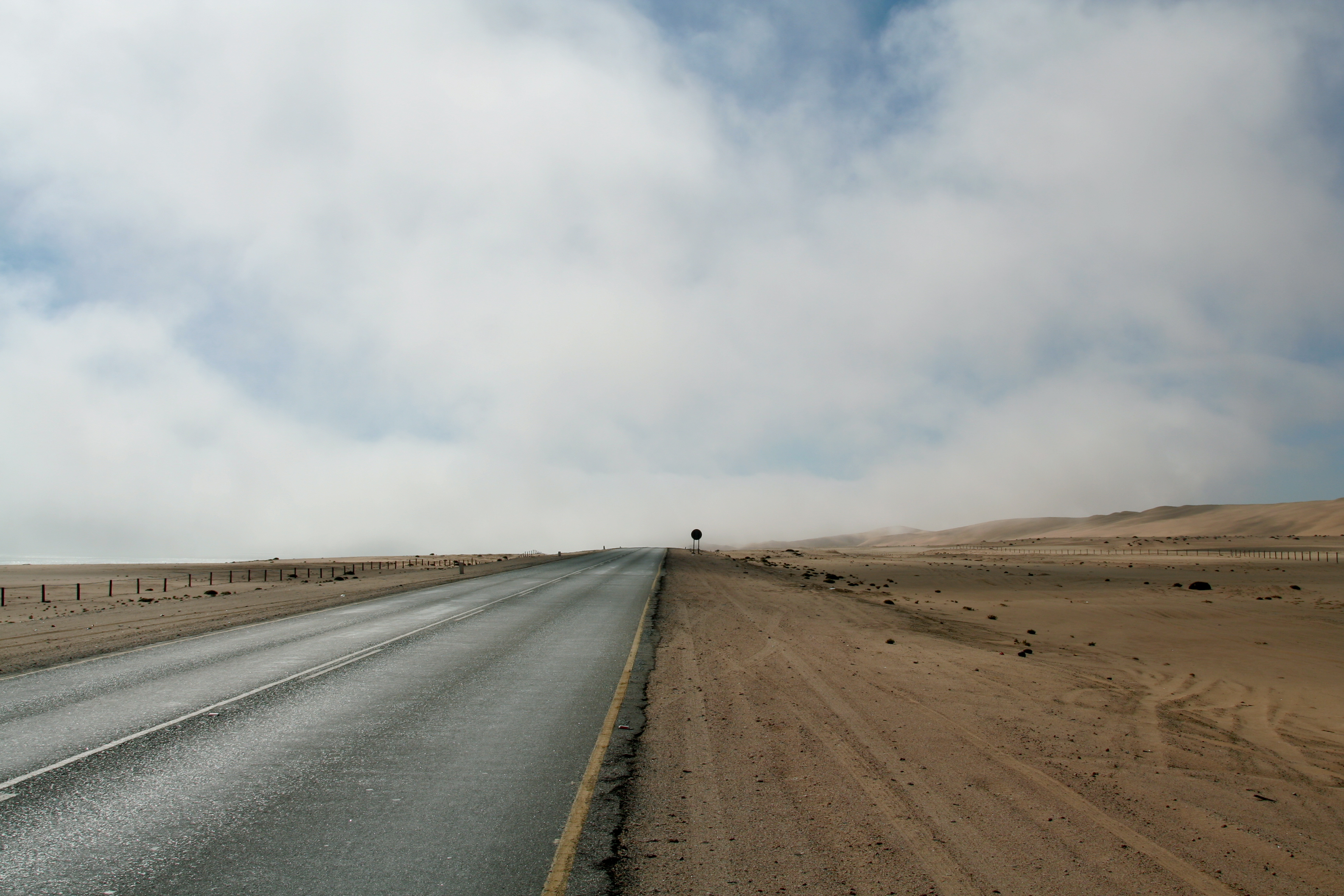 This is an image with the theme "Africa on the Move or Transport" from: Namibia